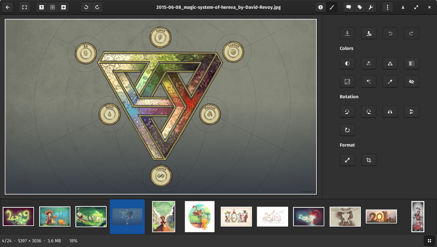 Screenshot of GThumb 3.8